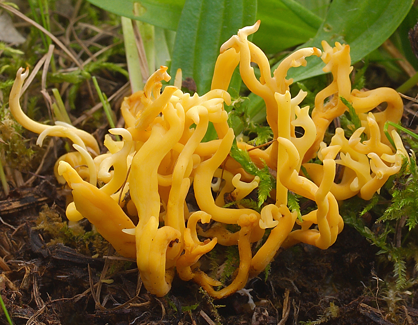 Meadow Coral (Clavulinopsis corniculata)